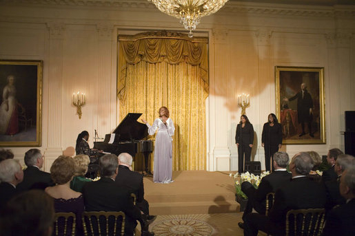 Singer Yolanda Adams performs at a reception for the Ford’s Theatre Abraham Lincoln Bicentennial Celebration in the East Room, White House, on Sunday, Feb. 11, 2007.